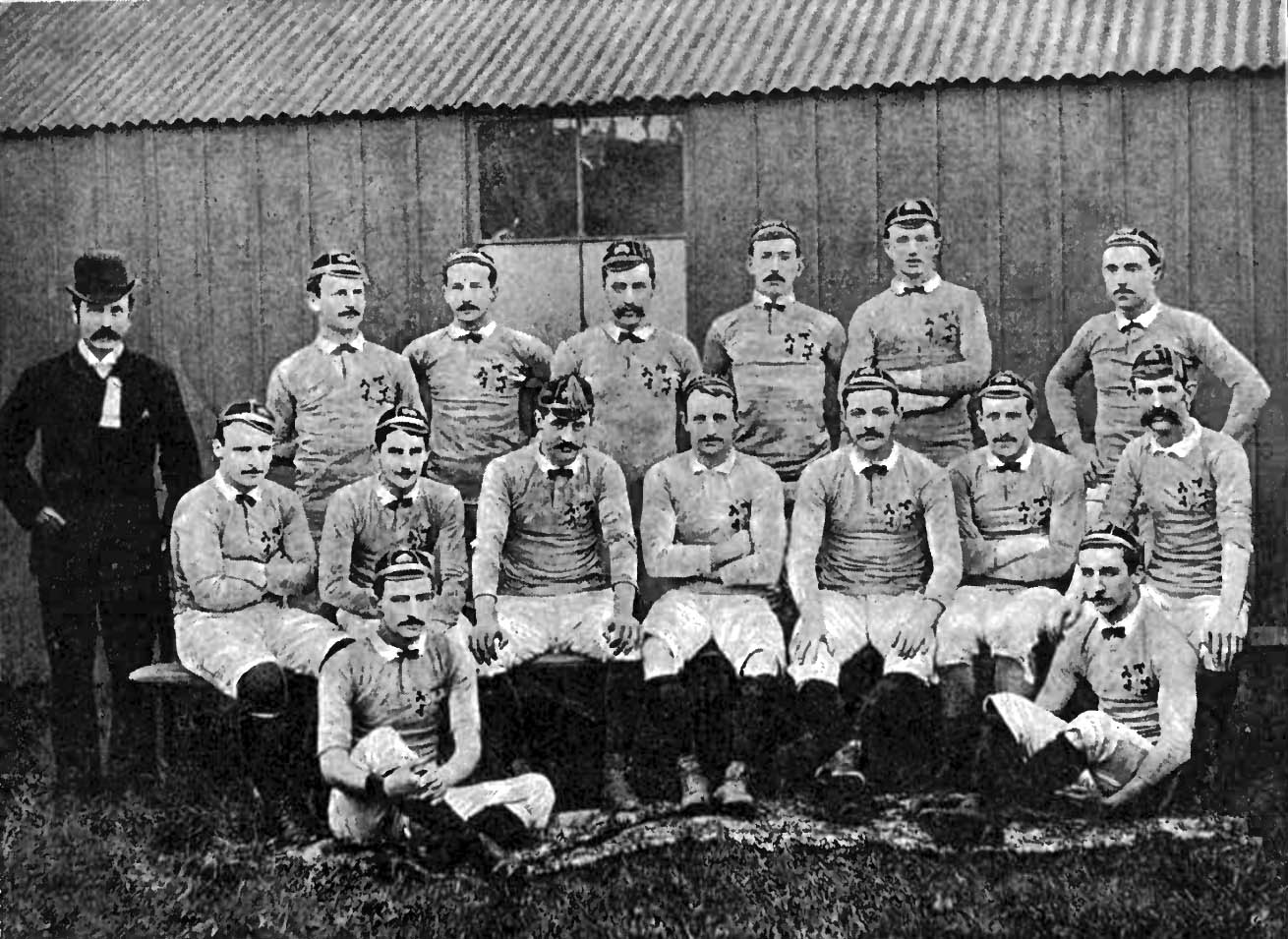 A picture of the Irish rugby union team that played England in Dublin on February 5th 1887.